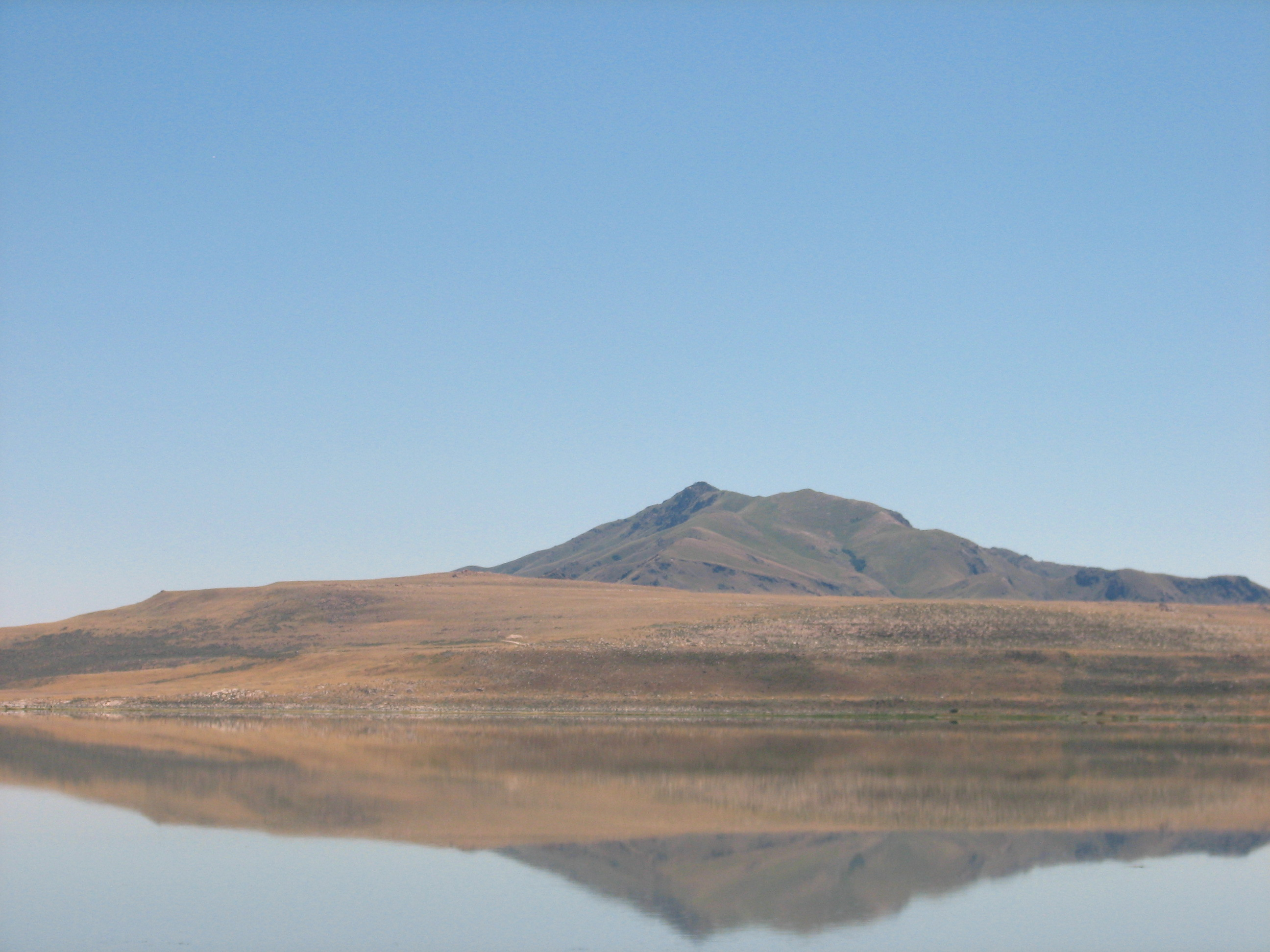 Author: Juozas Rimas